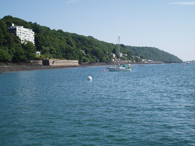 Glyn-y-Garth (Menai Straits)